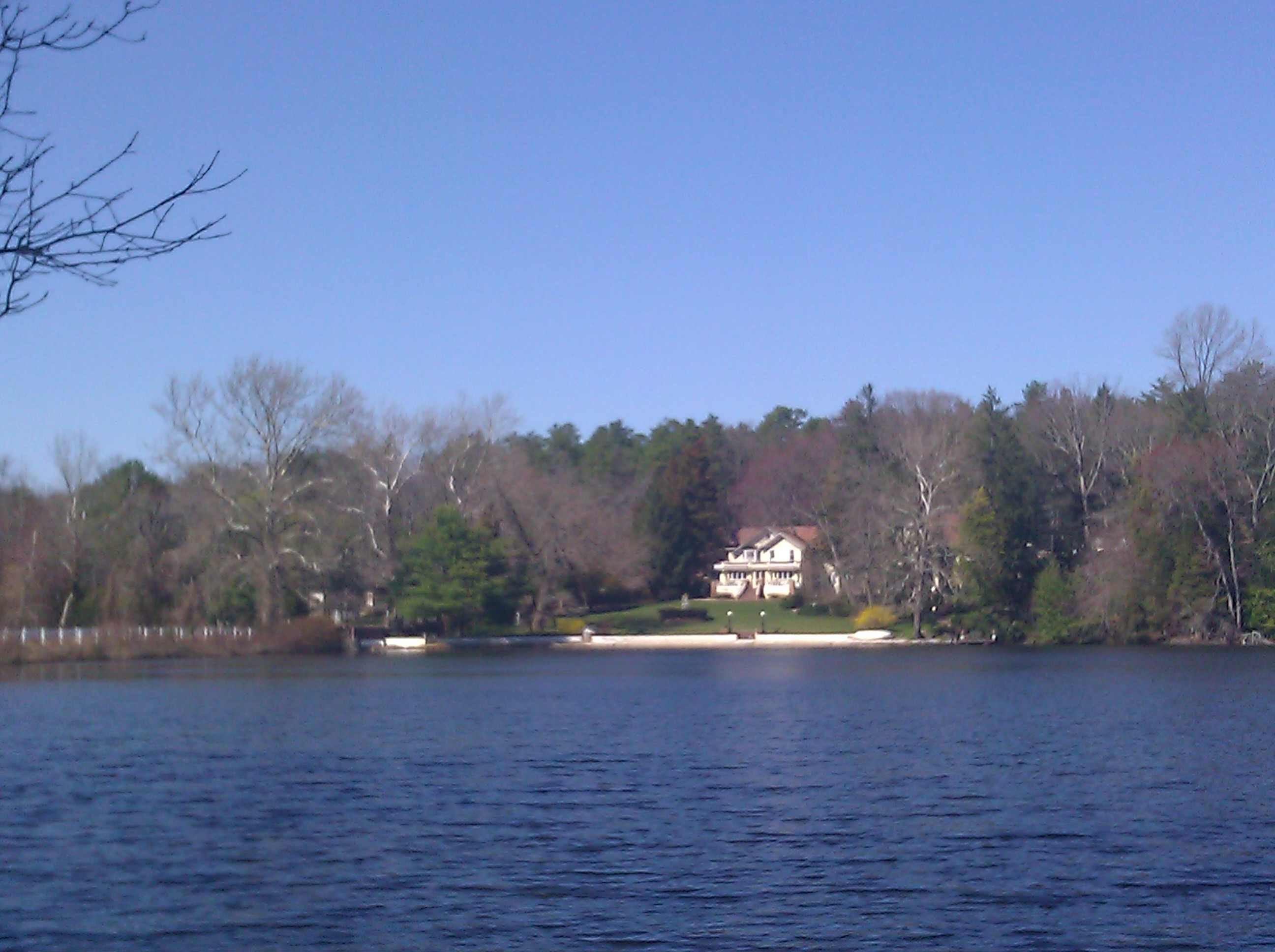 House widely believed to have been owned by Al Capone in Pine Hill, Camden County, New Jersey. The photographer on Flicker says it is in Pine Valley, NJ right next door, but Google Maps gives the location and the lake as being a few hundred yards outside Pine Valley.